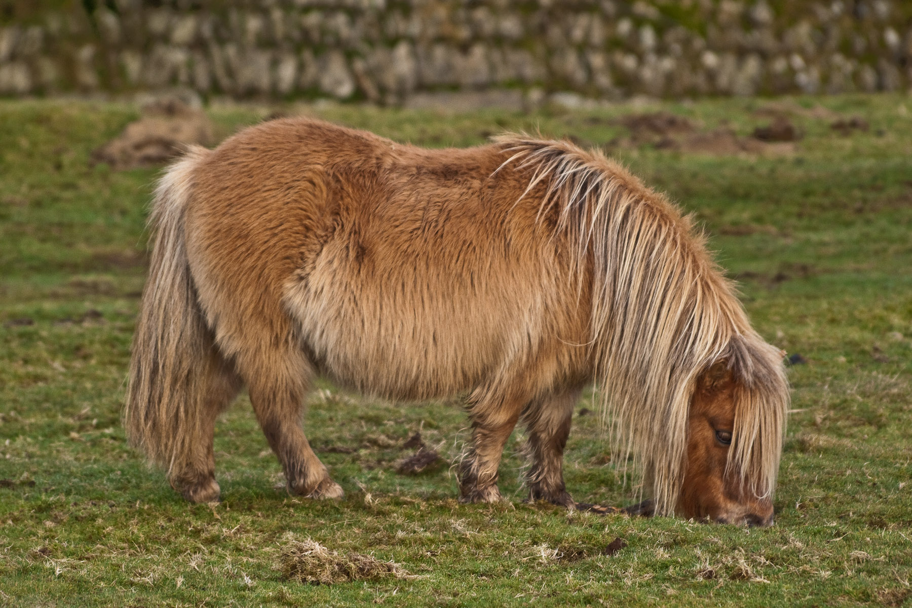 Pony grazing on Belstone Common